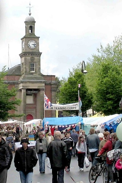 Newcastle